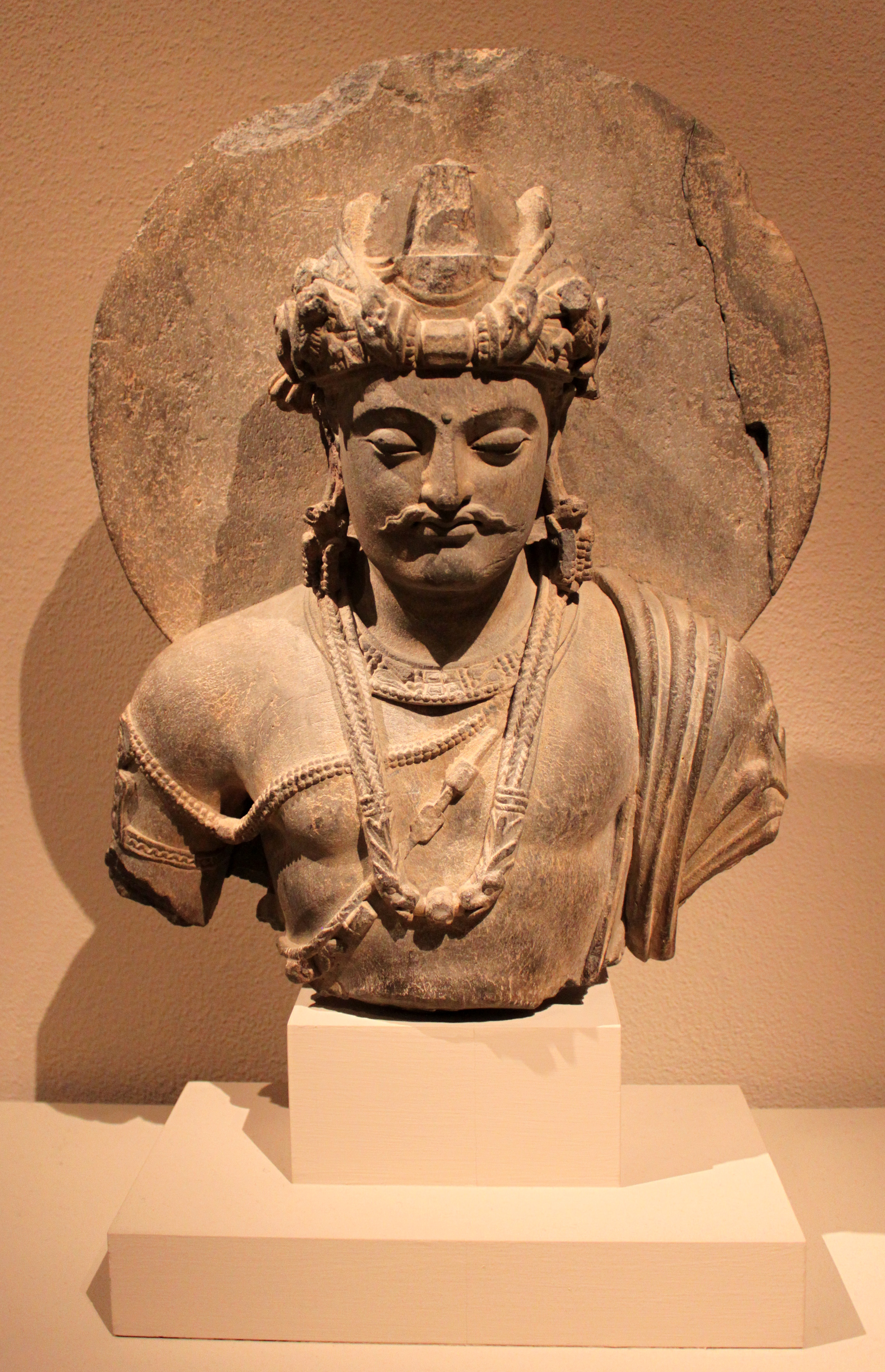 Bust of a Bodhisattva Shakyamuni (schist), Pakistan (3rd century - 4th century). H. 18 1/4 in. (46.4 cm); W. 13 in. (33 cm); D. 6 1/2 in. (16.5 cm) - Metropolitan Museum of Art, New York. On view in Gallery 235